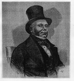 This is an engraving from the Illustrated News of the World, 1855.